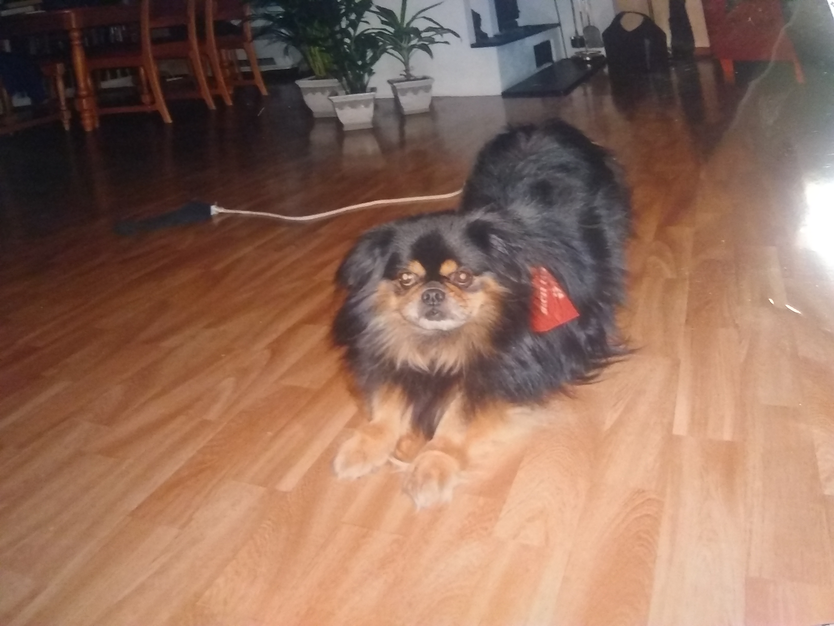 Tibetan spaniel